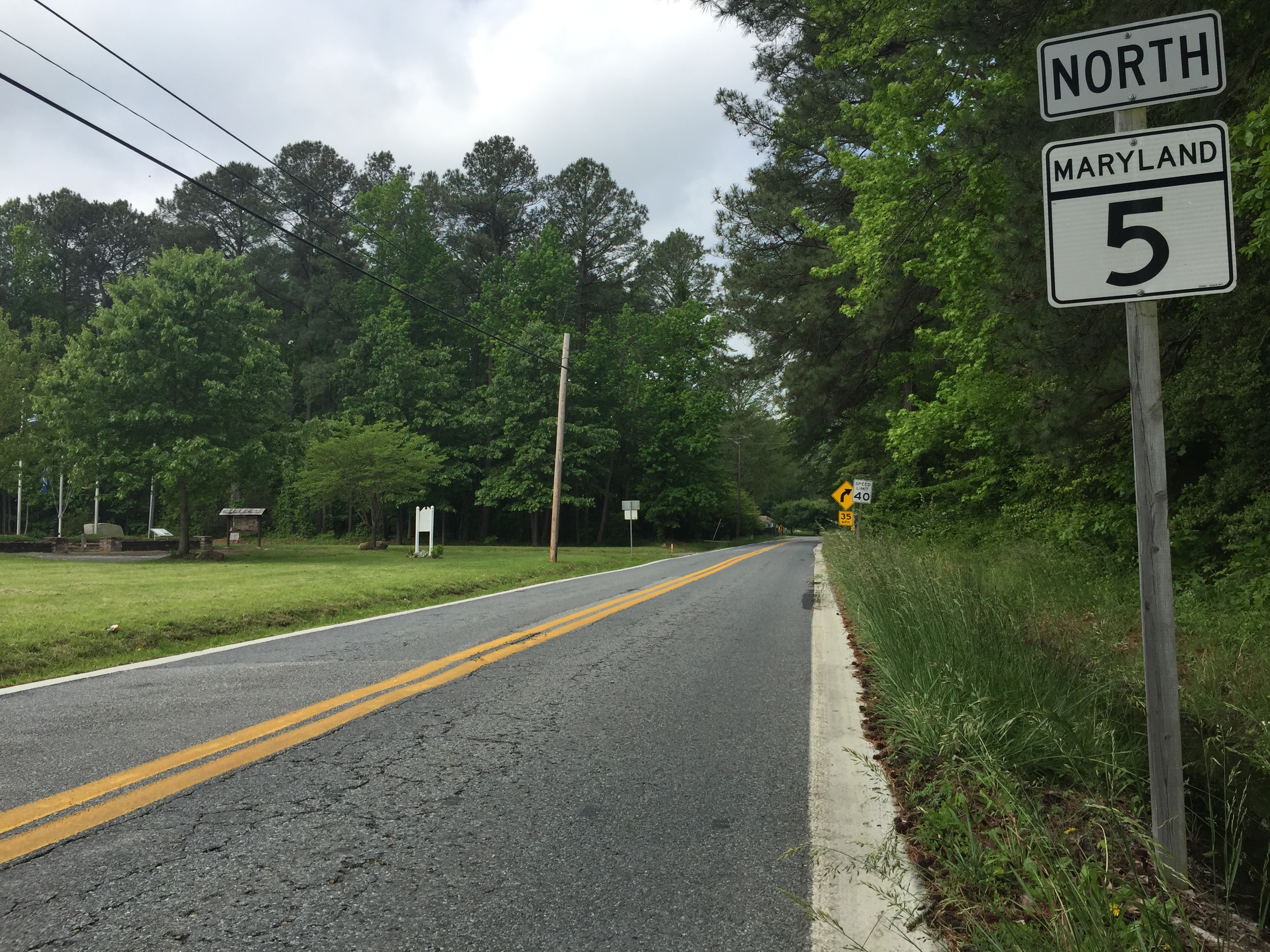 View north along Point Lookout Road (Maryland State Route 5) near Scotland Beach Road in Scotland, St. Mary's County, Maryland